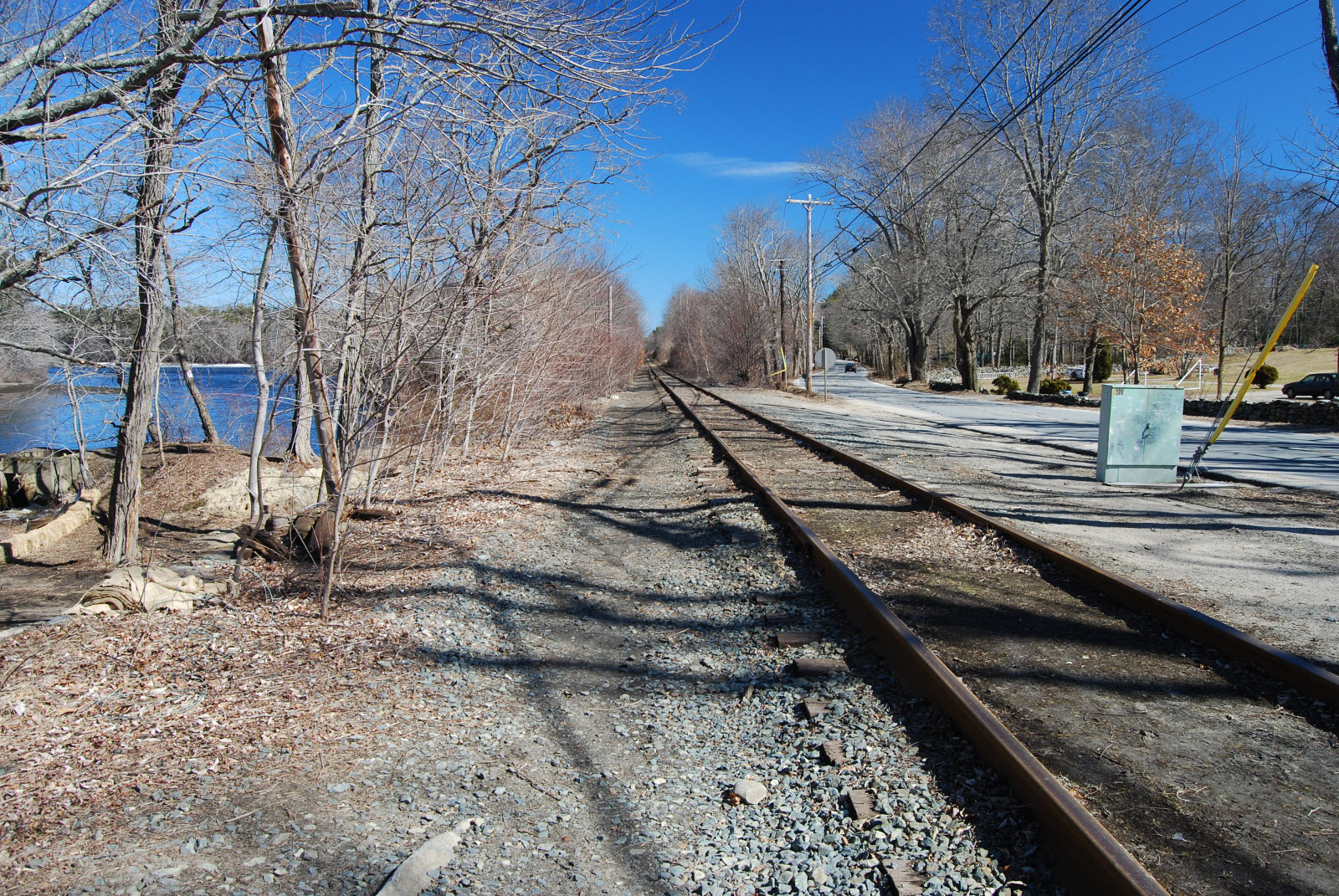 A portion of the Fall River Branch Railroad near Forge Road in Freetown, Massachusetts. This track was later part of the Old Colony Railroad system, and is now proposed for reuse in the South Coast Rail project.